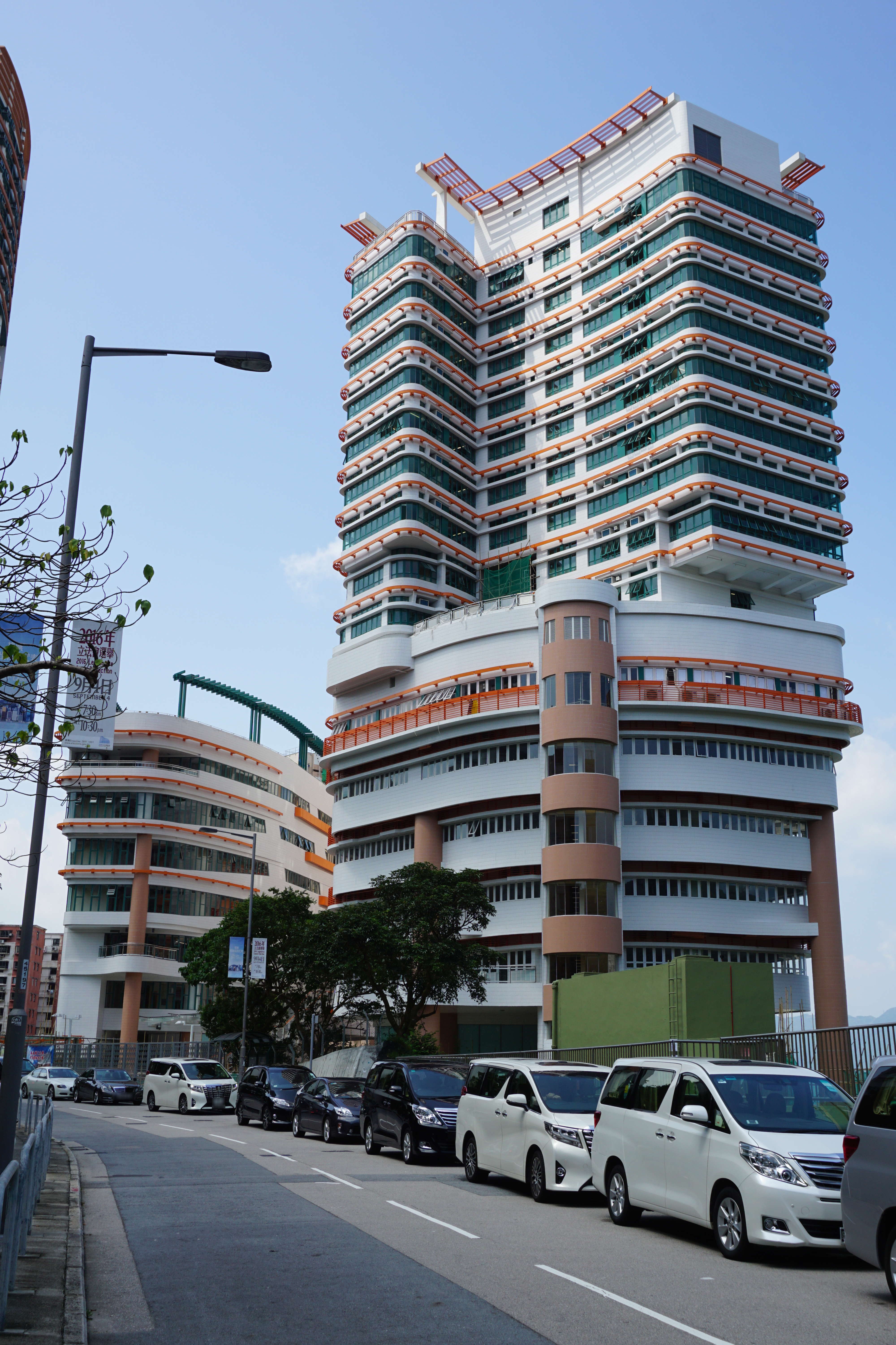 Shue Yan University in Braemar Hill, Hong Kong.